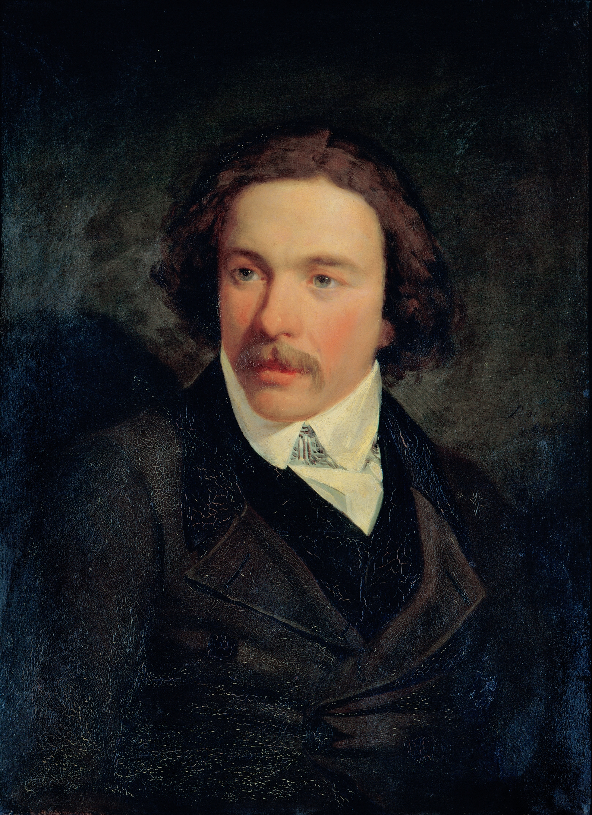 Portrait of Charles William King, painted in Rome, in 1847, by the 2nd Viscount of Meneses. Currently in the National Museum of Contemporary Art (Chiado Museum), in Lisbon, Portugal.